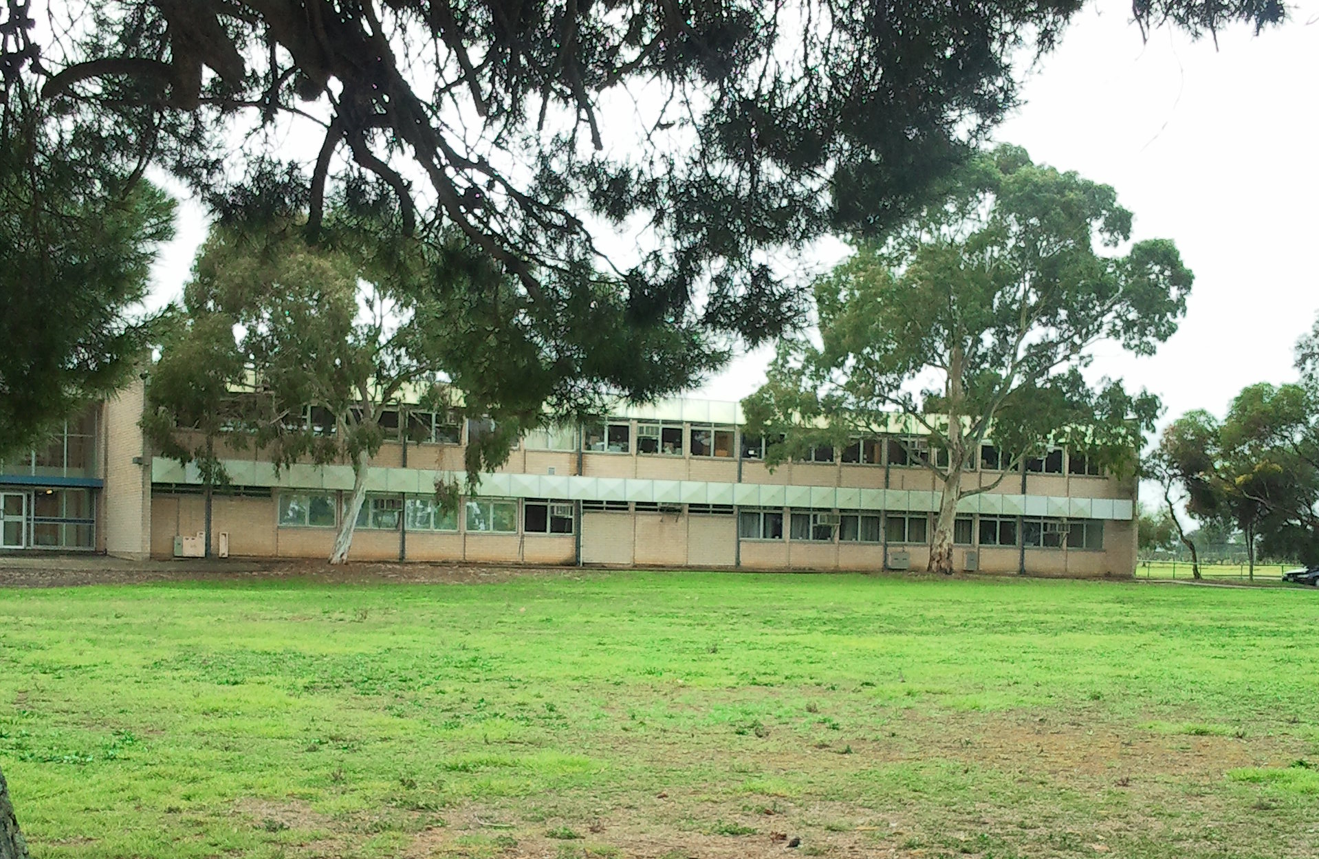 Ross Smith Secondary School in 2011 before closure. Image taken by me during my time as a student.